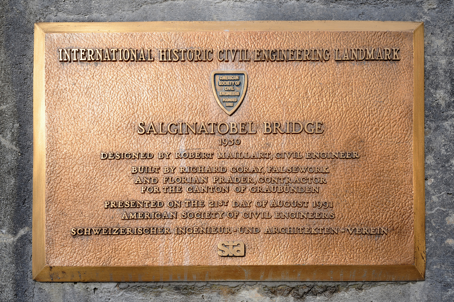 Salginatobel bridge by Robert Maillart over the Salgina between Schiers and Schuders, 1930; Graubünden, Switzerland. Award of the American Society of Civil Engineers.